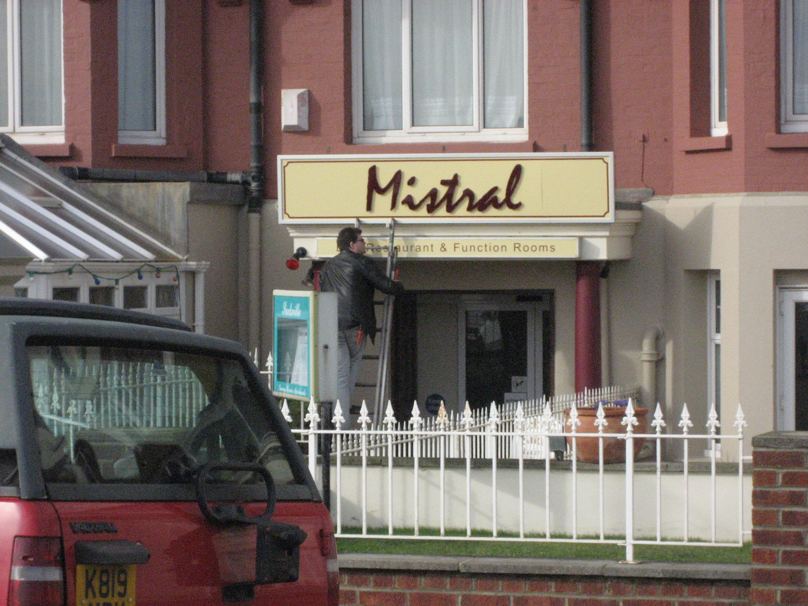 Mistral restaurant in Bexhill on Sea, display name set in Mistral typeface